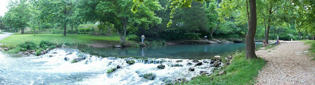 Roaring River State Park in Missouri